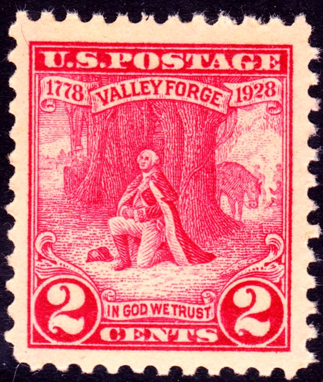 US Postage Stamp, Washington at Prayer, 1929 Issue, 2c